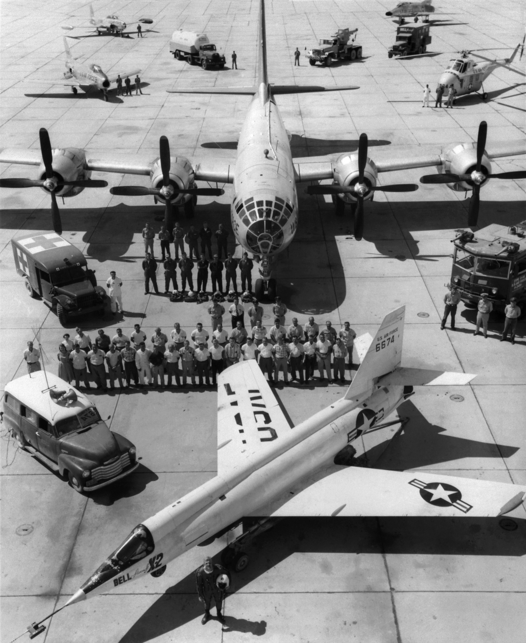 Air Force test pilot Capt. Iven Kincheloe stands in front of the Bell X-2 (46-674) on the ramp at Edwards Air Force Base, California. Behind the X-2 are ground support personnel, the B-50 launch aircraft and crew, chase planes, and support vehicles.